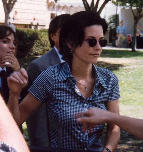 Courteney Cox